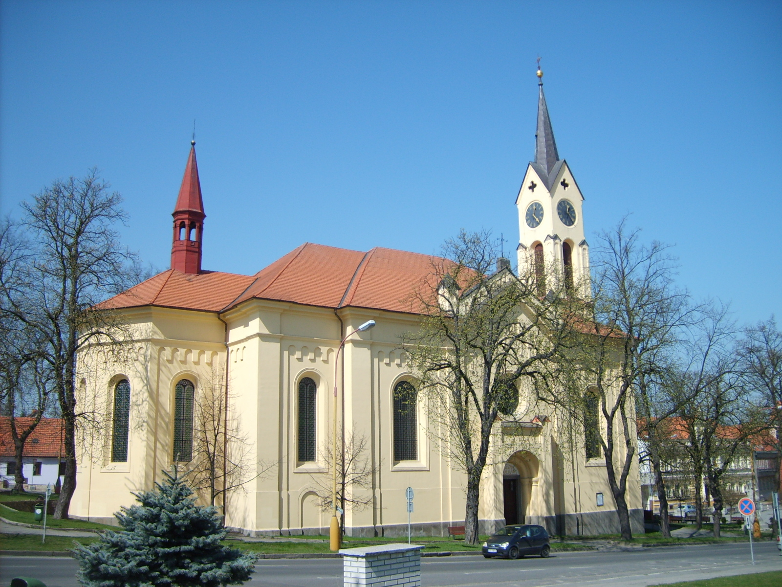 St. Bartholomew church in Milevsko. (1866)